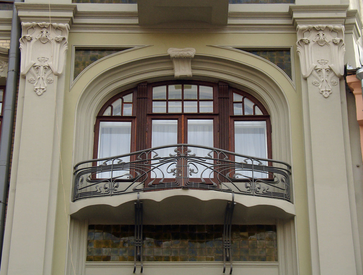 Arbat Street, Moscow. Unusually few people - between New Year and (orthodox) Christmas the city looks deserted.